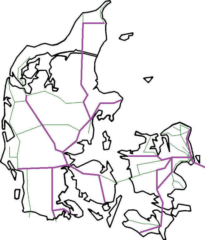 Map of railways in Denmark with lines served by regional trains of DSB, including the Øresund trains, in violet.